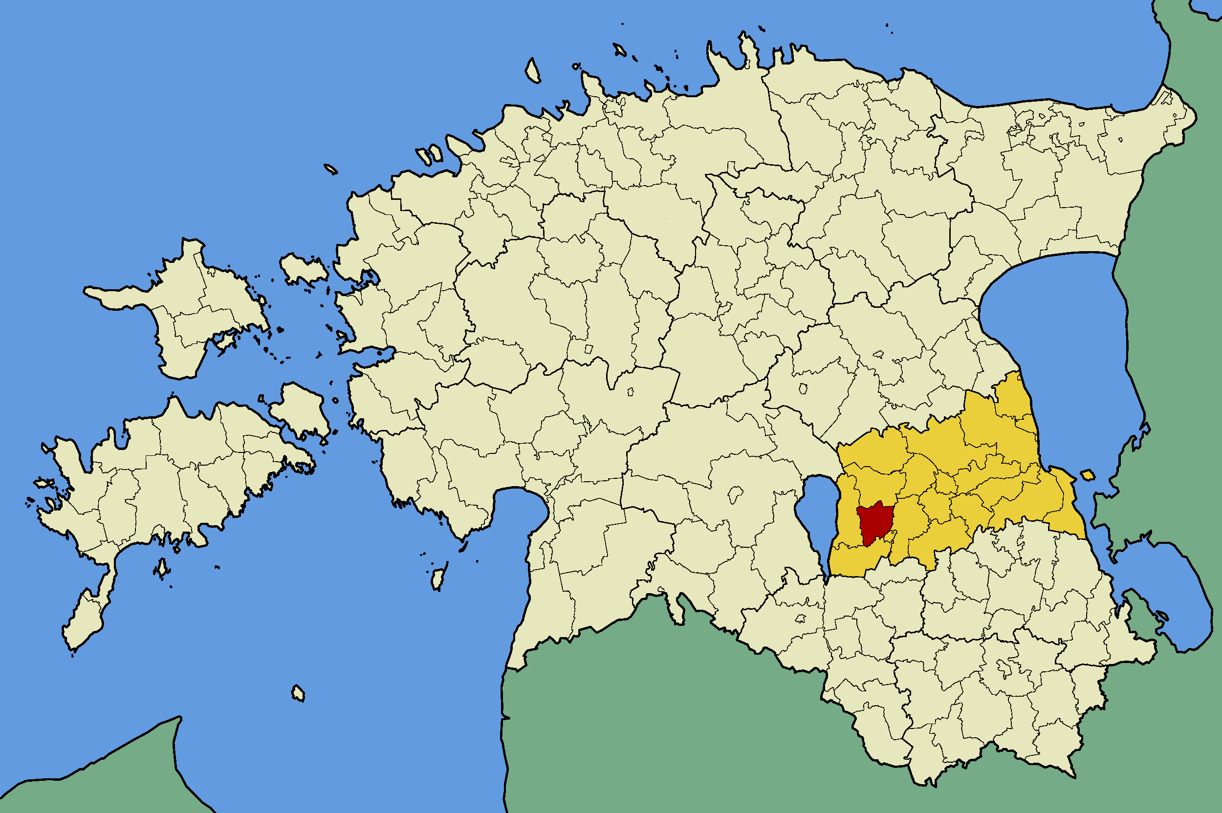 Map of Estonia with borders of municipalities (parishes). Tartu county and Konguta municipality emphasized.